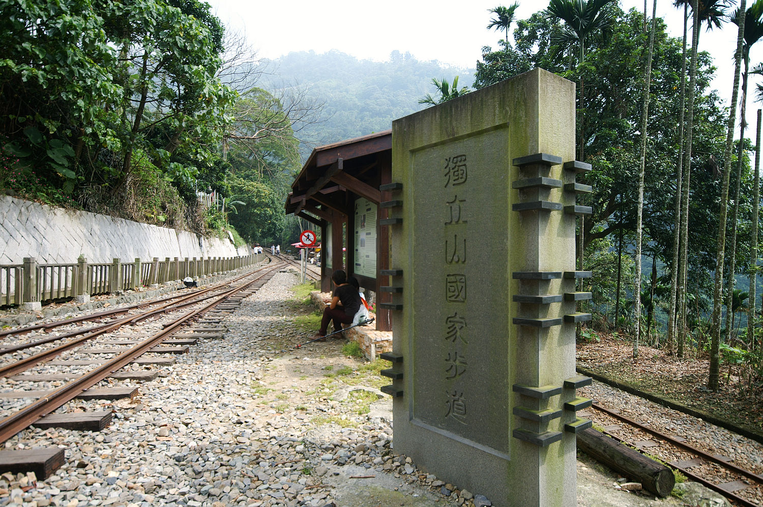 Dulishan Natioanl Trail.The photo taken from Zhangnaoliao Station in Chiayi County,Taiwan.